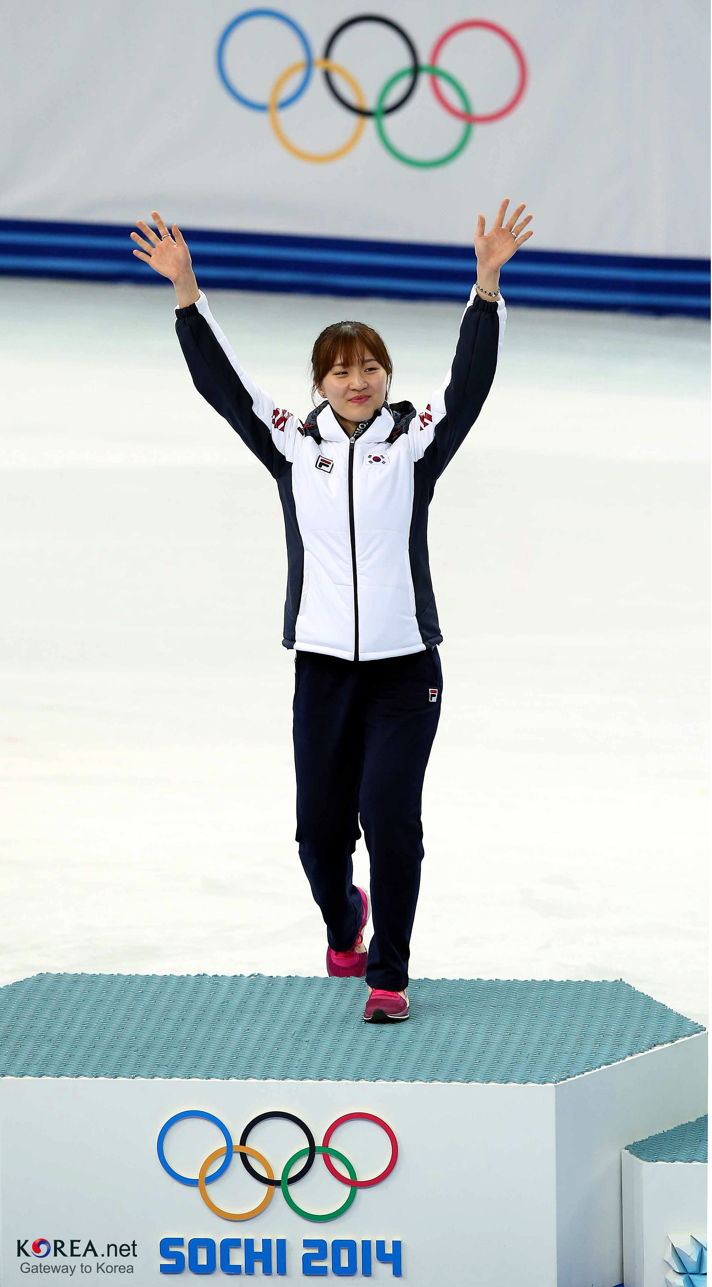 Park Seung-hi won gold medal and Shim Suk-hee won bronze medal in th ladies’ 1,000-metem short track at the Sochi Winter Olympics Team Korea won the gold medal in the ladies' 3,000-meter short track relay at the Sochi 2014 Olympic Games in Sochi, Russia. February 21, 2014 Iceberg Skating Palace, Sochi, Russia Photo: The Korean Olympic Committee Related Articles Cheong Wa Dae Ladies’ short track team: “We will never forget this day” -English- Ladies’ short track team: “We will never forget this day” 'Olympic Silver Medal is Invaluable': Shim Suk-hee -Espanol- "La medalla olímpica de plata es invaluable": Shim Suk-hee -Russian- «Серебряная олимпийская медаль бесценна», - Шим Сук Хи -Deutsch- Shorttrackteam der Frauen: „Wir werden diesen Tag nie vergessen” ,Olympische Silbermedaille ist von unschätzbarem Wert‘: Shim Suk-hee -Francais- Shim Suk-hee : "une médaille d'argent olympique, ça n'a pas de prix !" -中文- 韩国女子短道速滑代表队：不会忘记今天 沈石溪：奥运银牌是一枚珍贵的奖牌 -日本語- ショートトラック女子韓国代表チーム、「生涯忘れられないレース」 シム・ソッキ、「五輪銀メダルに満足」 2014 소치 동계올림픽 쇼트트랙 여자 1,000m 박승희 금메달, 심석희 동메달 획득 2014-02-21 러시아, 소치. 아이스버그 스케이팅 팰리스 사진: 대한체육회 -연관기사- 코리아넷 뉴스 한국 여자 쇼트트랙 대표팀, “오늘을 잊을 수 없을 거예요”